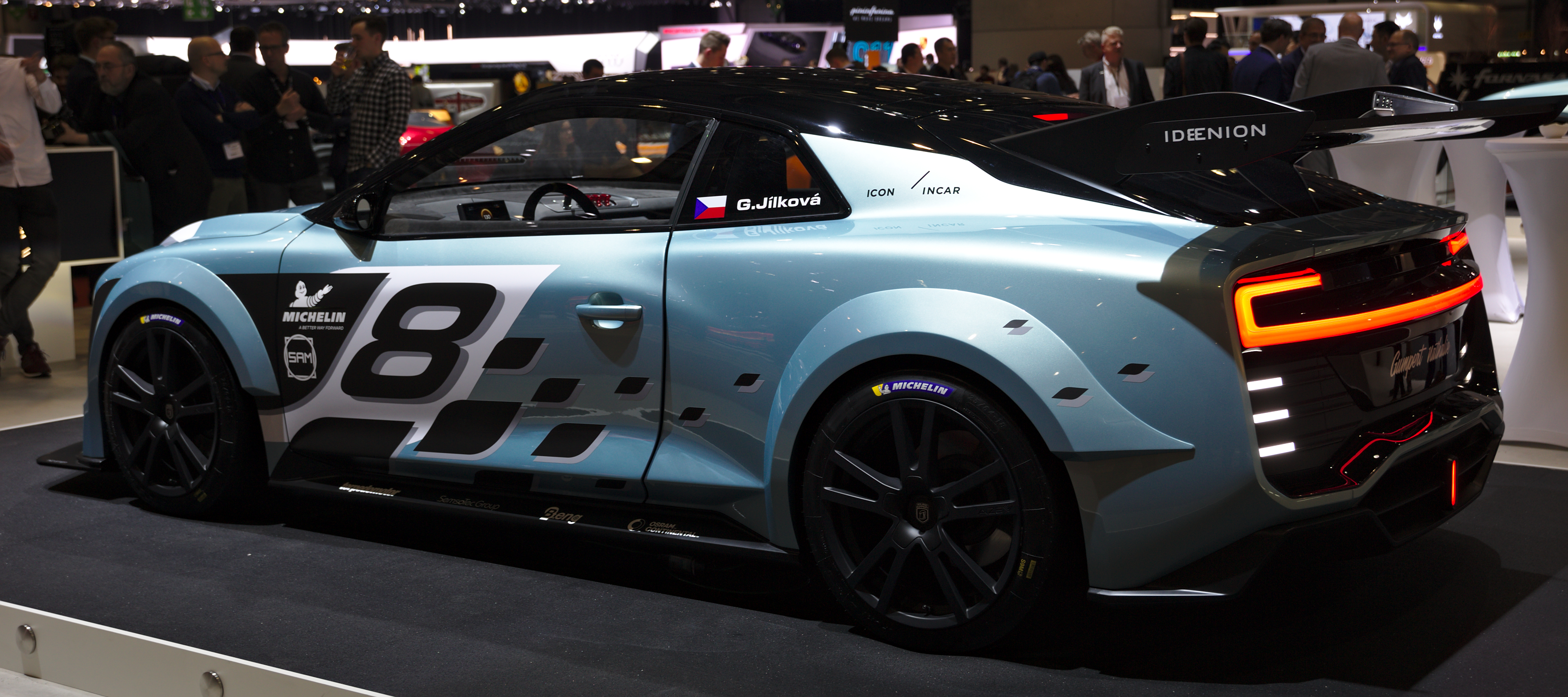 Gumpert Nathalie Race at Geneva Motor Show 2019